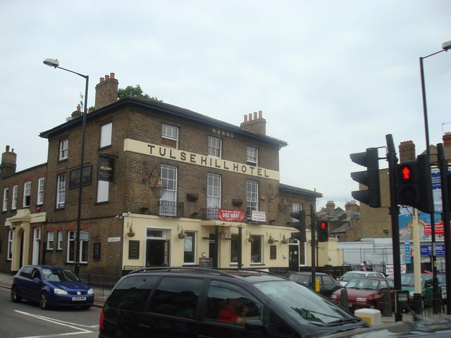 Tulse Hill Hotel public house